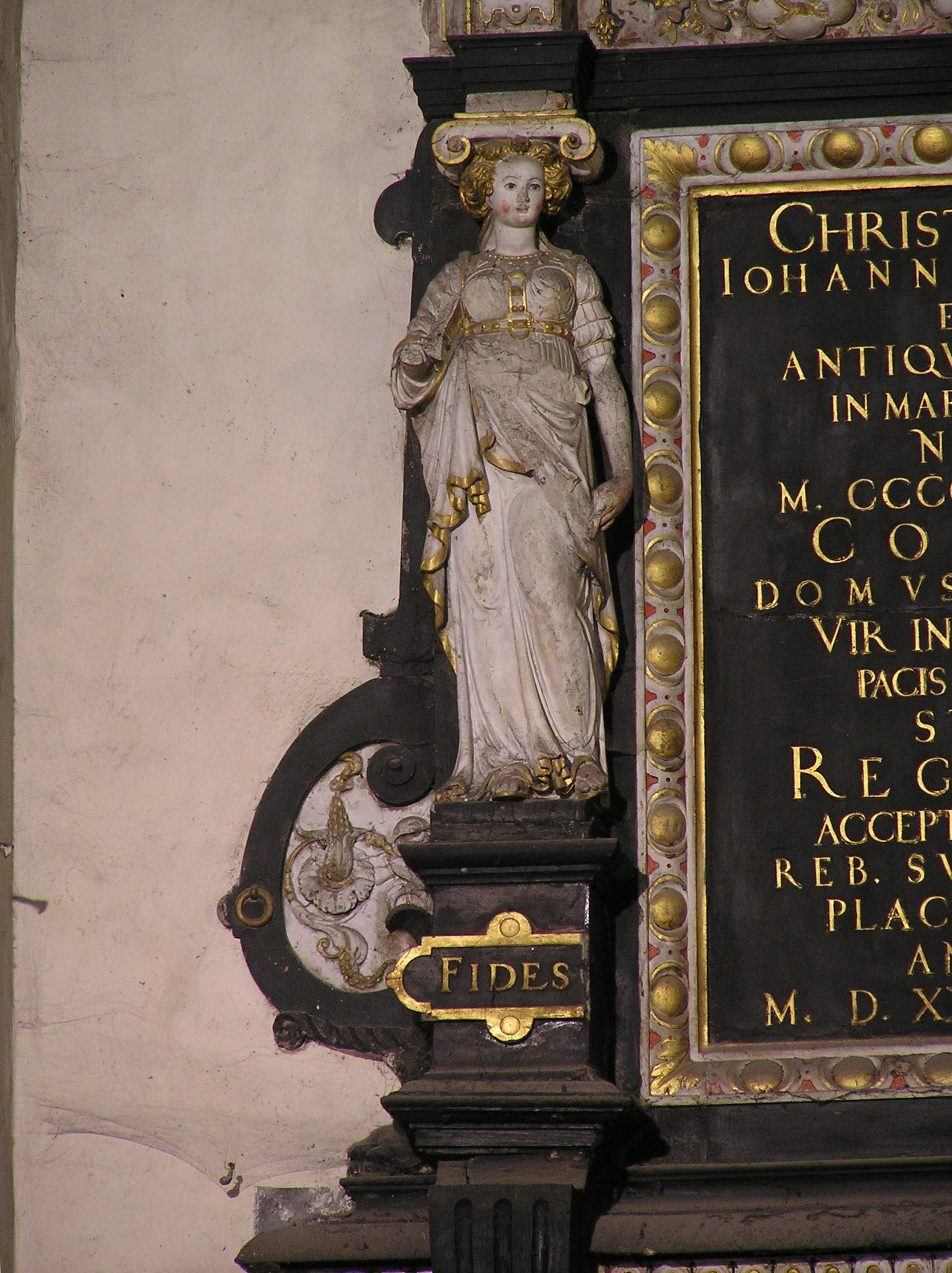 Toruń, St. Mary's church, epitaph of the Stroband family, allegorical figure - Fides (Faith).